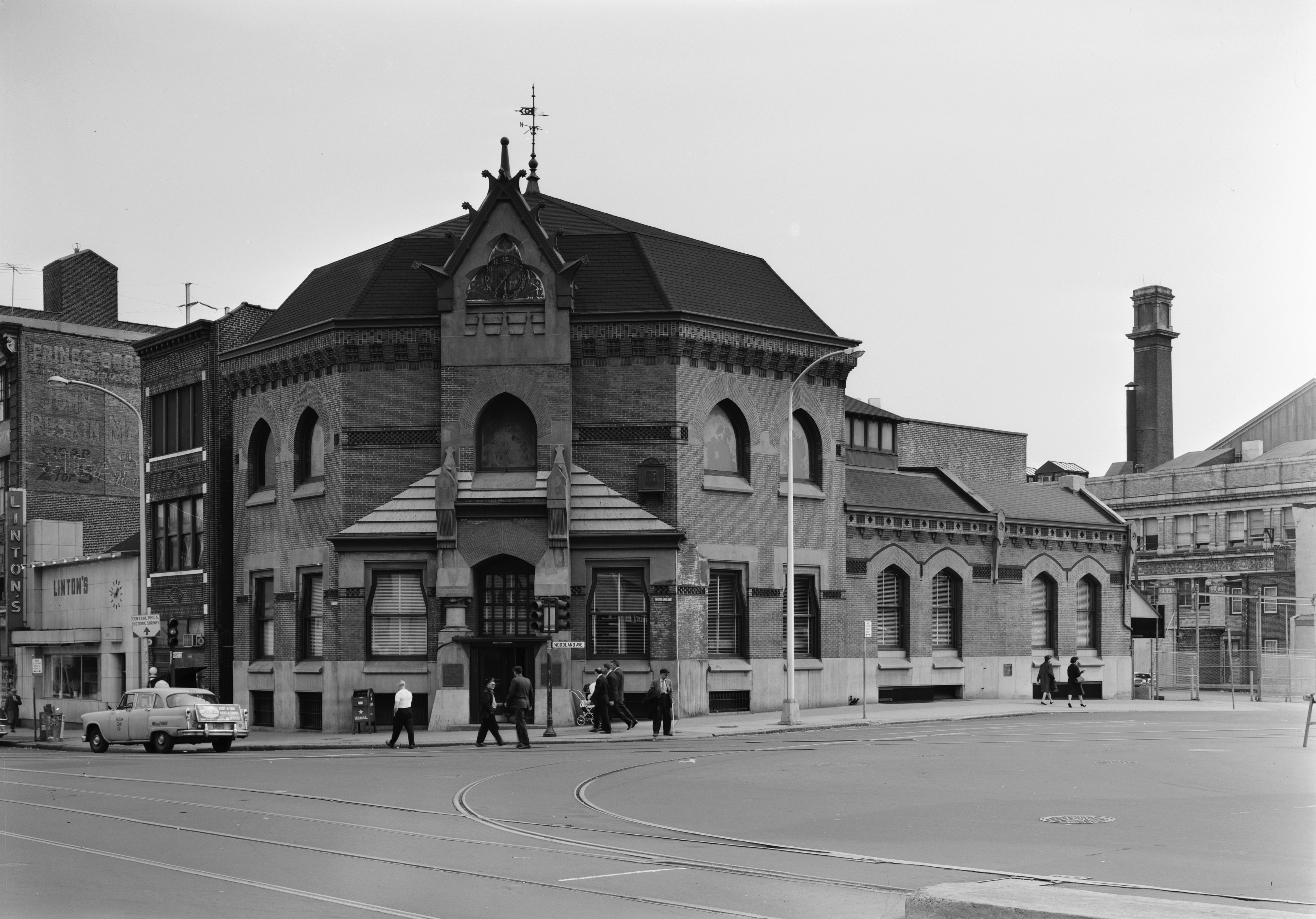 A photograph of the Centennial National Bank at 32nd and Market Streets in Philadelphia, PA